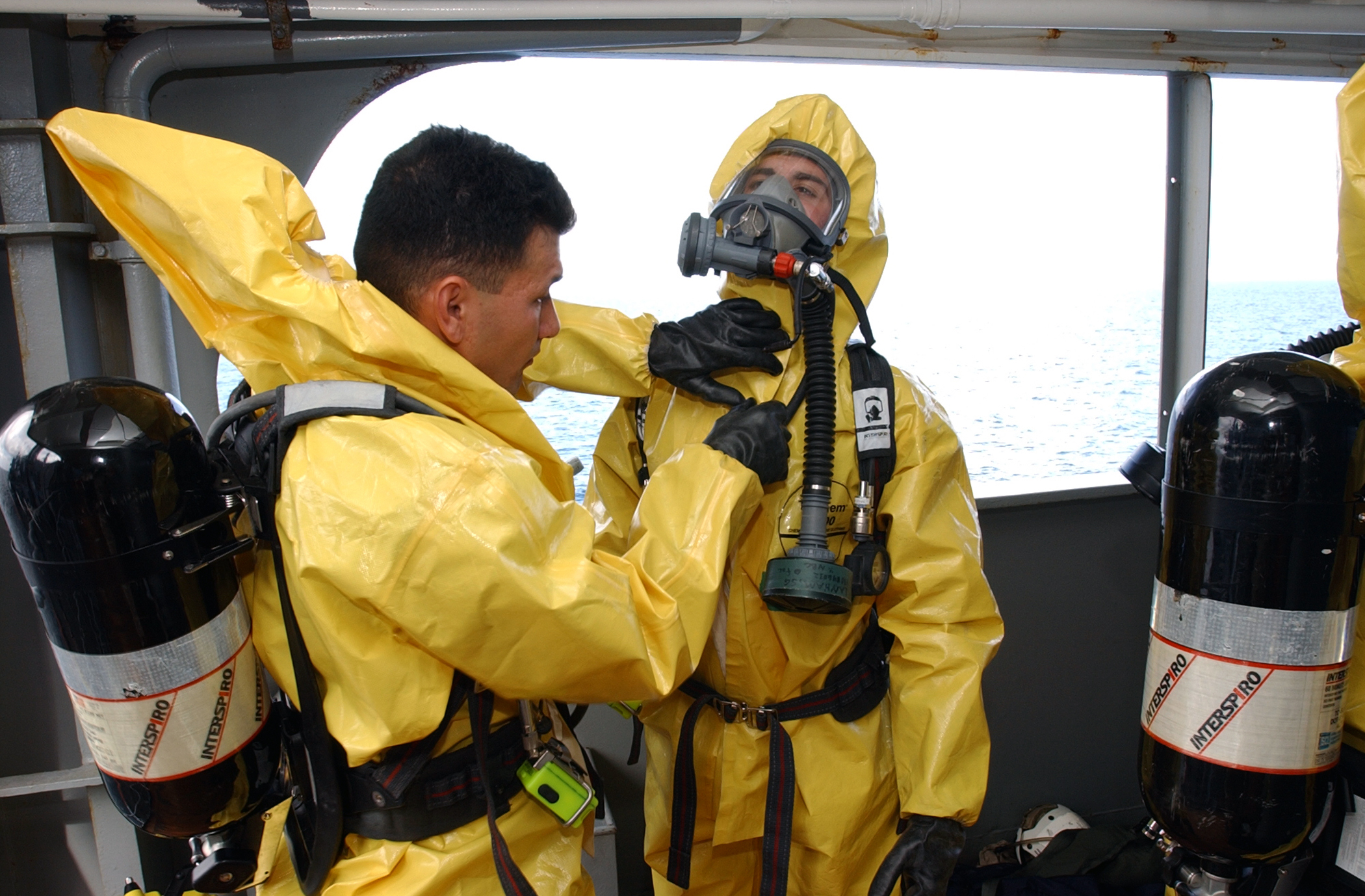 Arabian Sea (Jan. 17, 2004) -- Nuclear, Biological, and Chemical (NBC) disposal technicians from the 1st Marines 1st Battalion prepare to search the Military Sealift Command (MSC) combat stores ship USNS Saturn (T-AFS 10). The NBC team was looking for mock Weapons of Mass Destruction (WMD) during a mock non-compliant boarding as part of exercise Sea Saber 2004. The 5th Proliferation Security Initiative (PSI) exercise of its kind, Sea Saber focuses on the interdiction of a maritime shipment of weapons of mass destruction and related equipment and materials on the high seas. U.S. Navy photo by Photographer's Mate 2nd Class Jeffrey Lehrberg. (RELEASED)